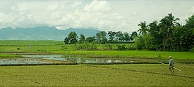 Mountain View of Cadiz City, Negros Occidental, Philippines.